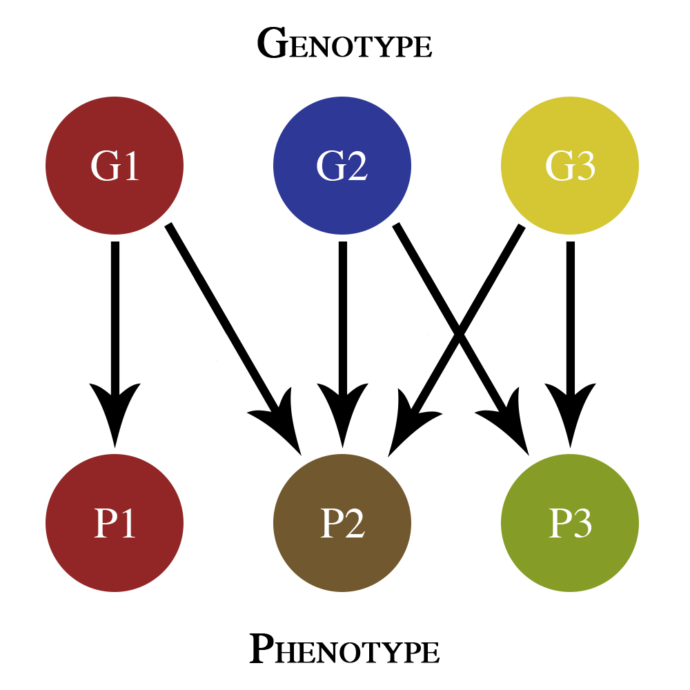 A very simple genotype-phenotype map that only shows additive pleiotropy effects. G1, G2, and G3 are different genes that contribute to phenotypes P1, P2, and P3. For all intents and purposes, G1 contributes a red color to the phenotype of an organism, G2 contributes a blue color to the phenotype of an organism, and G3 contributes a yellow color to the phenotype of an organism. Please note that these are not real genes, and any similarity to existing genes is purely coincidental. Interpretation of this simple map shows that G1 is the only gene that contributes to the P1 phenotype; thus, this phenotype is red. G1, G2, and G3 contribute to P2; thus, this phenotype is brown. G2 and G3 contribute to P3; thus, this phenotype is green.